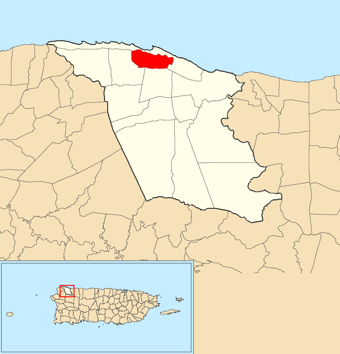 Isabela barrio-pueblo, Isabela, Puerto Rico locator map